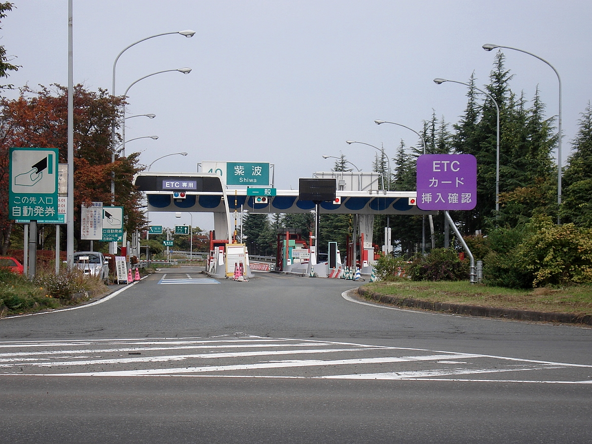 This Interchange, Shiwa Interchange, is on Tohoku Expressway, in Shiwa town, Iwate Prefecture, Japan.